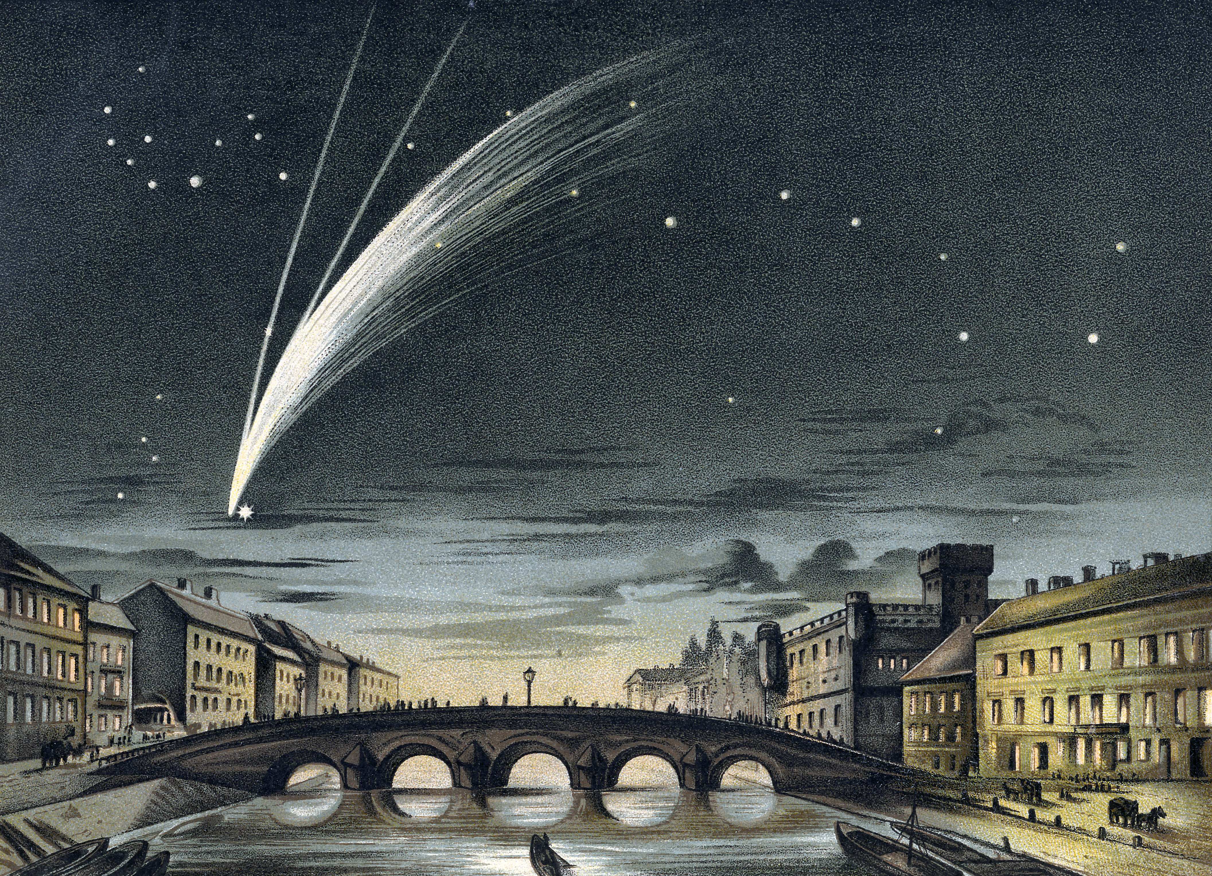 Comet C/1858 L1 (Donati) on October 5, 1858. Note the Big Dipper to the right. The bright star near the comet's head is Arcturus in the constellation Bootes.